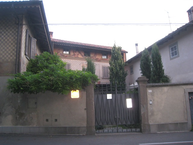 Stezzano - villa Moschenis